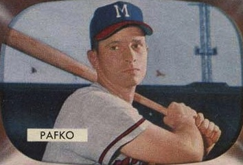 MLB player Andy Pafko's 1955 Bowman Gum baseball card. Cropped border from original image.